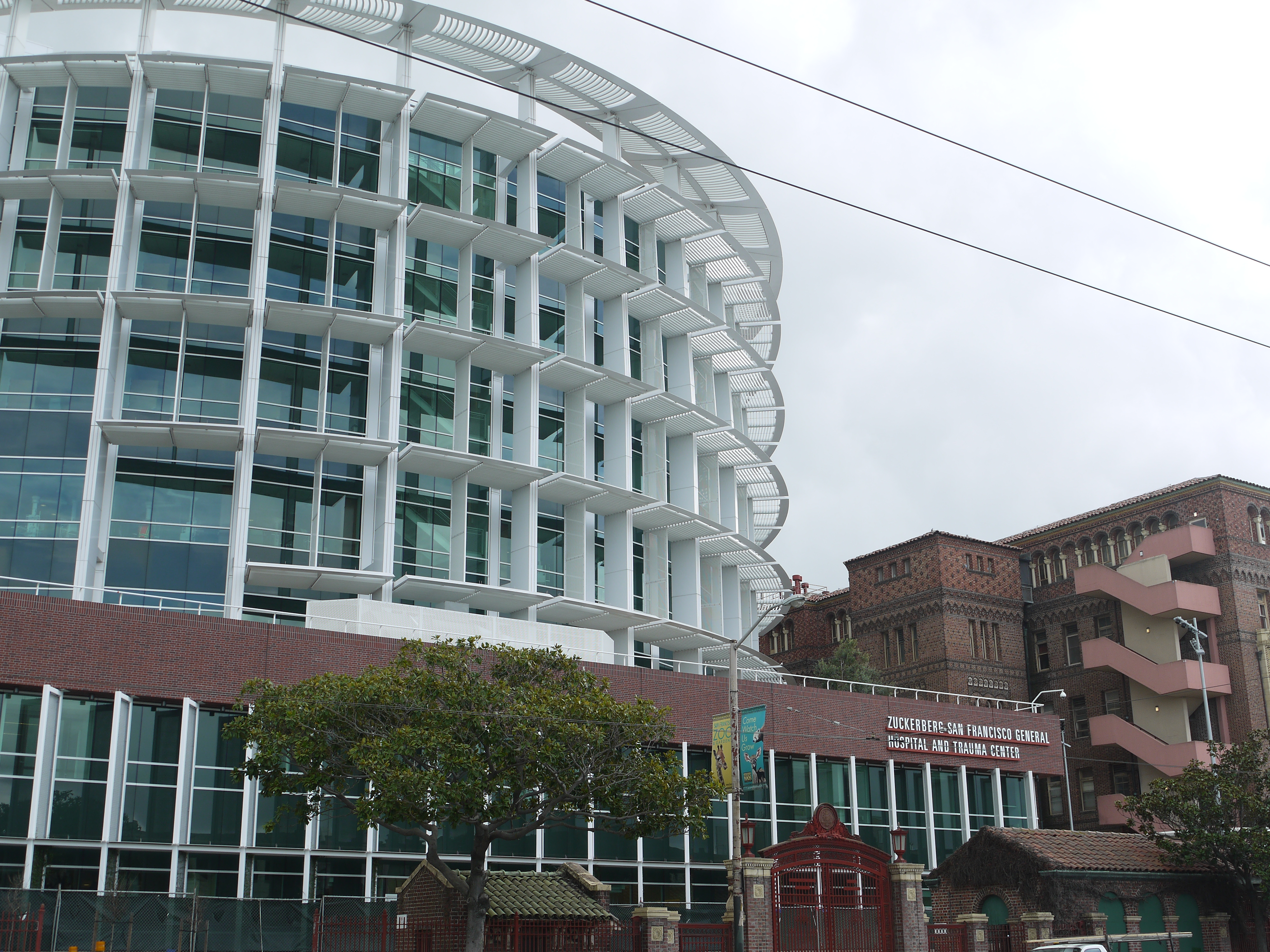 New facade of SFGH after construction completed in 2015.